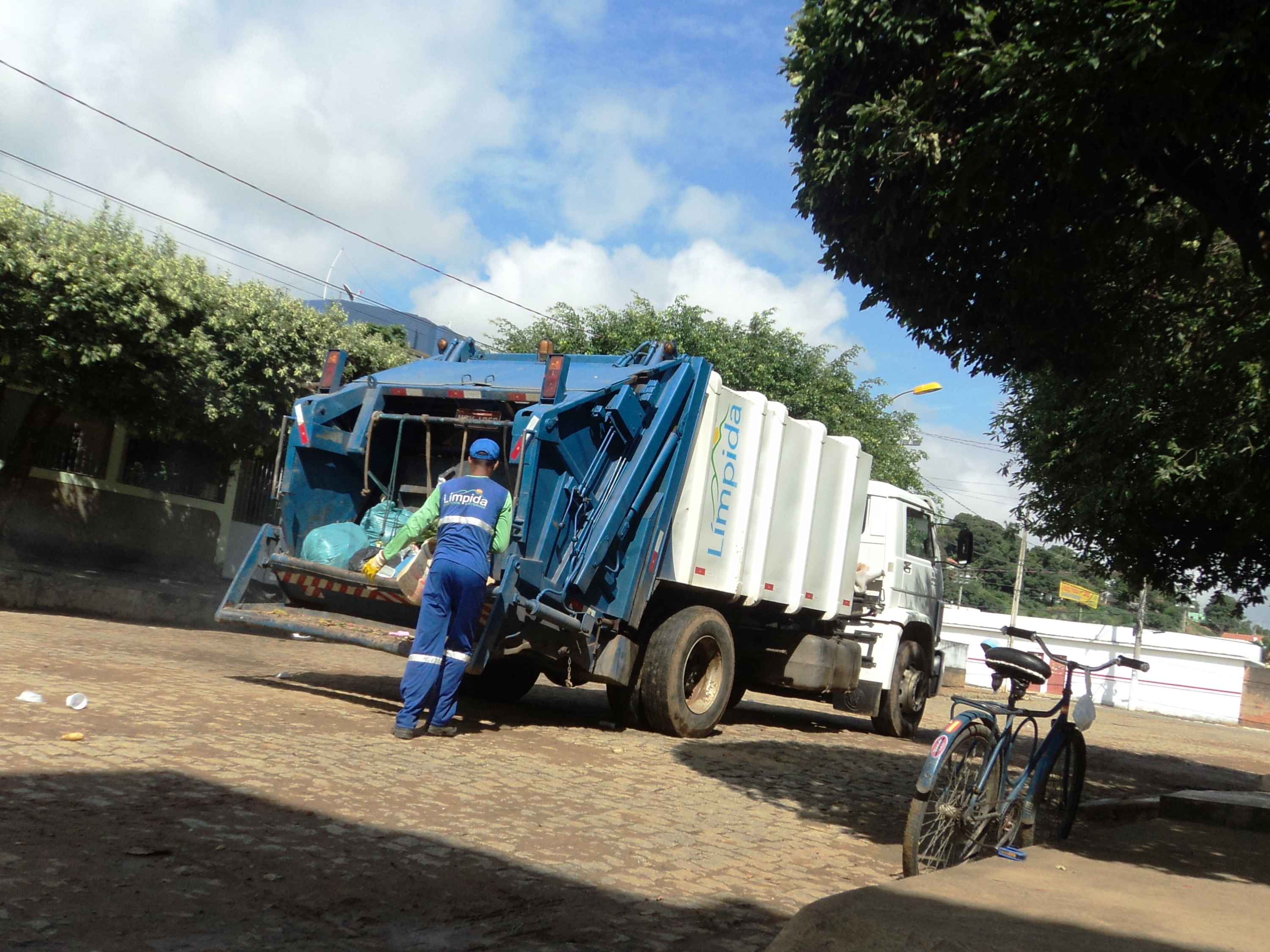 Waste collection trucks of Baixo Guandu, Espírito Santo, Brazil.